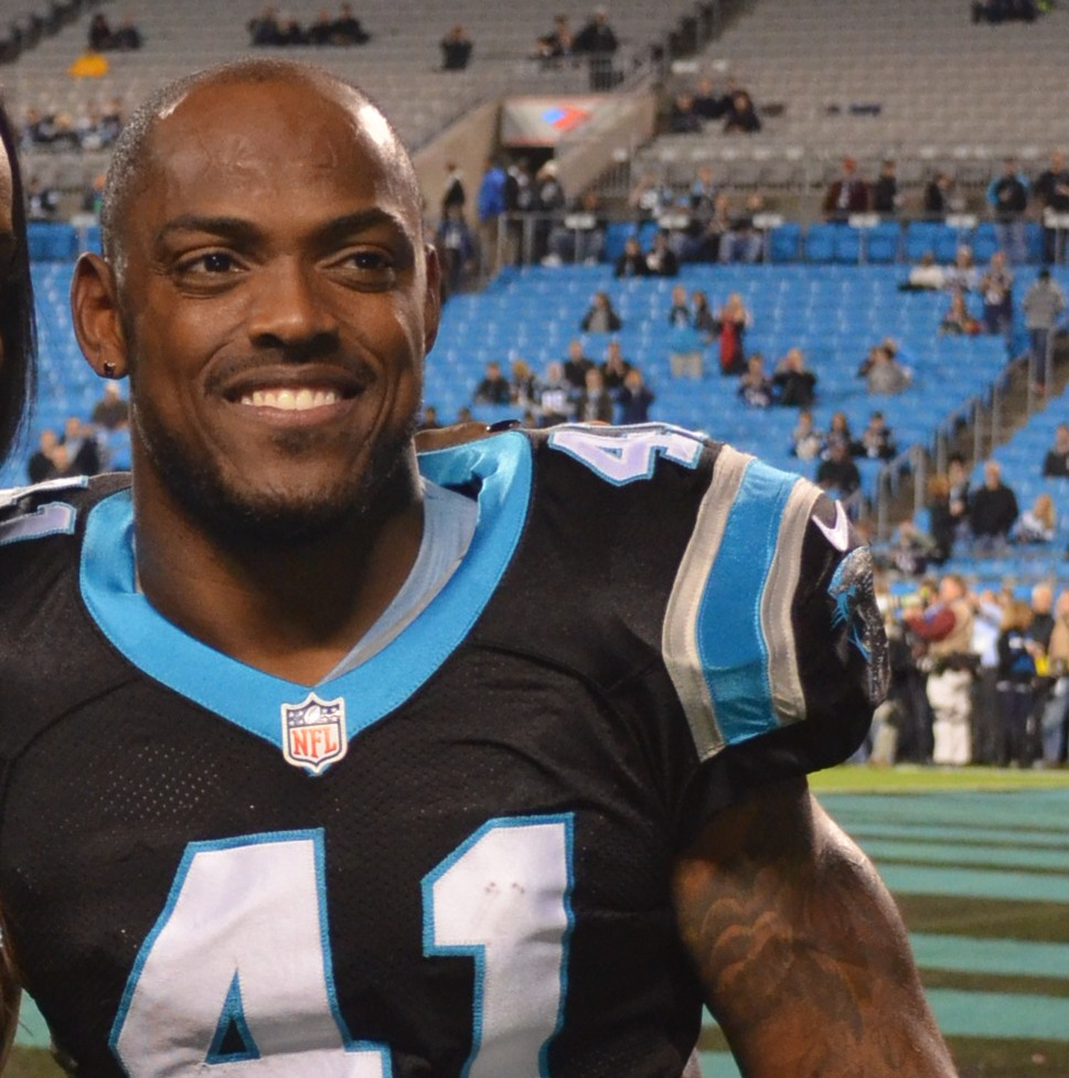 Carolina Panthers cornerback, Captain Munnerlyn, in a game against the New England Patriots on November 18, 2013.